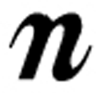 This is the musical symbol for the dynamic niente (nothing)